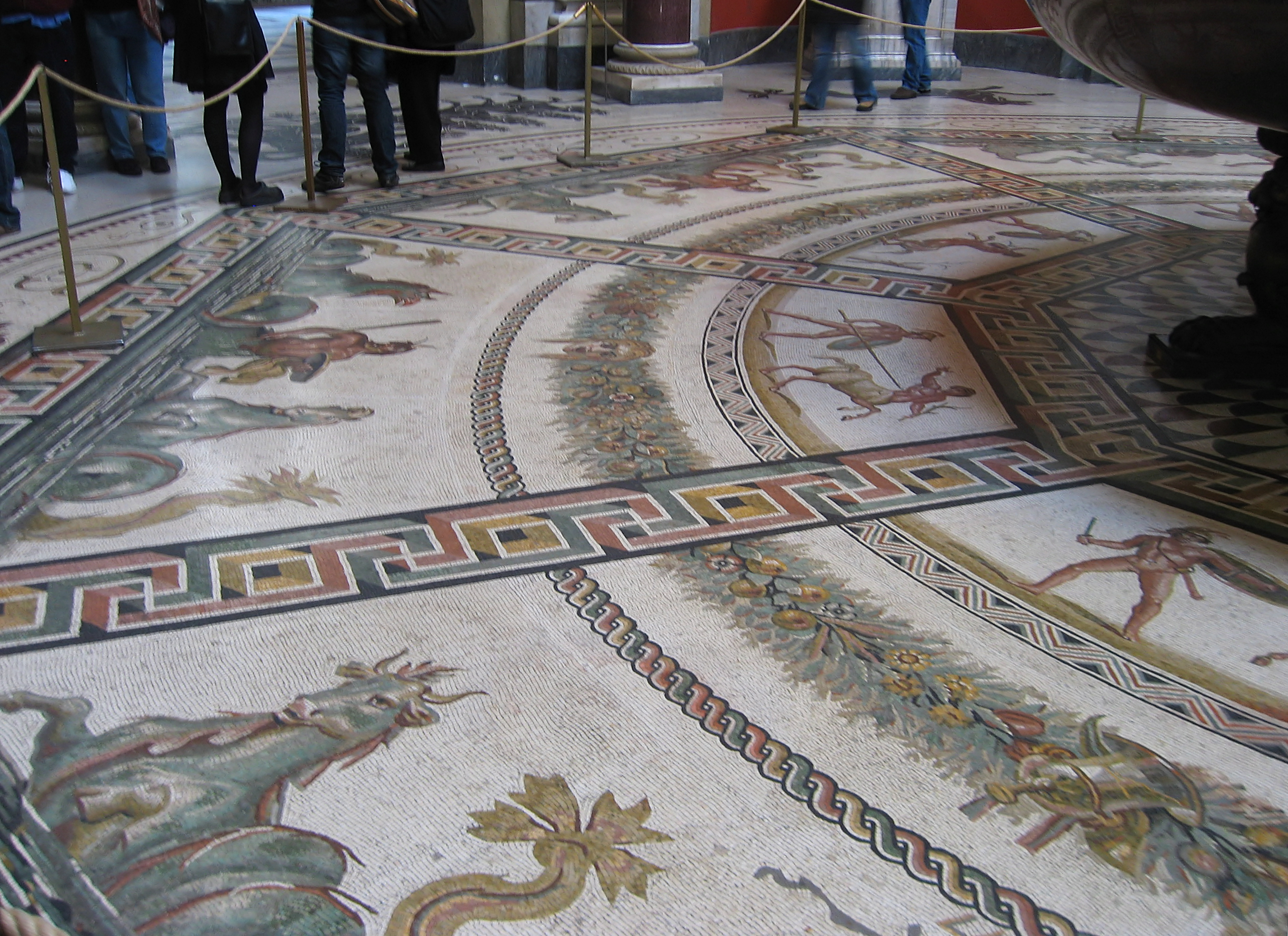 Vatican Museums Native nameMusei VaticaniLocationVatican CityCoordinates41° 54′ 23″ N, 12° 27′ 16″ E Established1506Web page control : Q182955 VIAF: 141443926 ISNI: 0000 0001 0807 3165 GND: 235092-0 SUDOC: 032013795 BNF: 12312427s institution QS:P195,Q182955